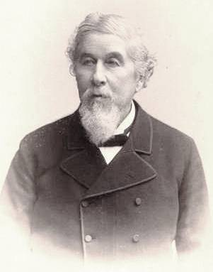 John Bard (1819-1899), the founder of St. Stephen’s College later renamed Bard College in his honor.